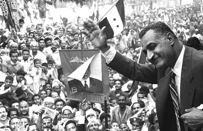 Egyptian President Gamal Abdel Nasser waving to crowds in Mansoura from a train car